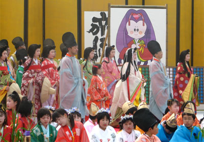 Scene from 2006 Saiö Matsuri, Meiwa Town (Mie Prefecture, Japan)